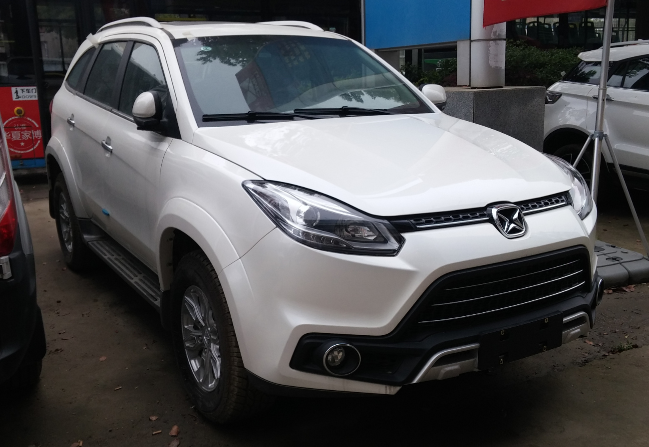 Jiangling Yusheng S350 facelift photographed in Wuhan, Hubei province, China.